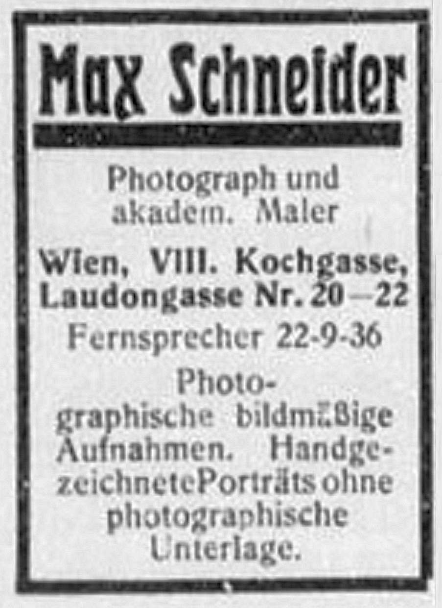 Max Schneider: Entry in the business directory.